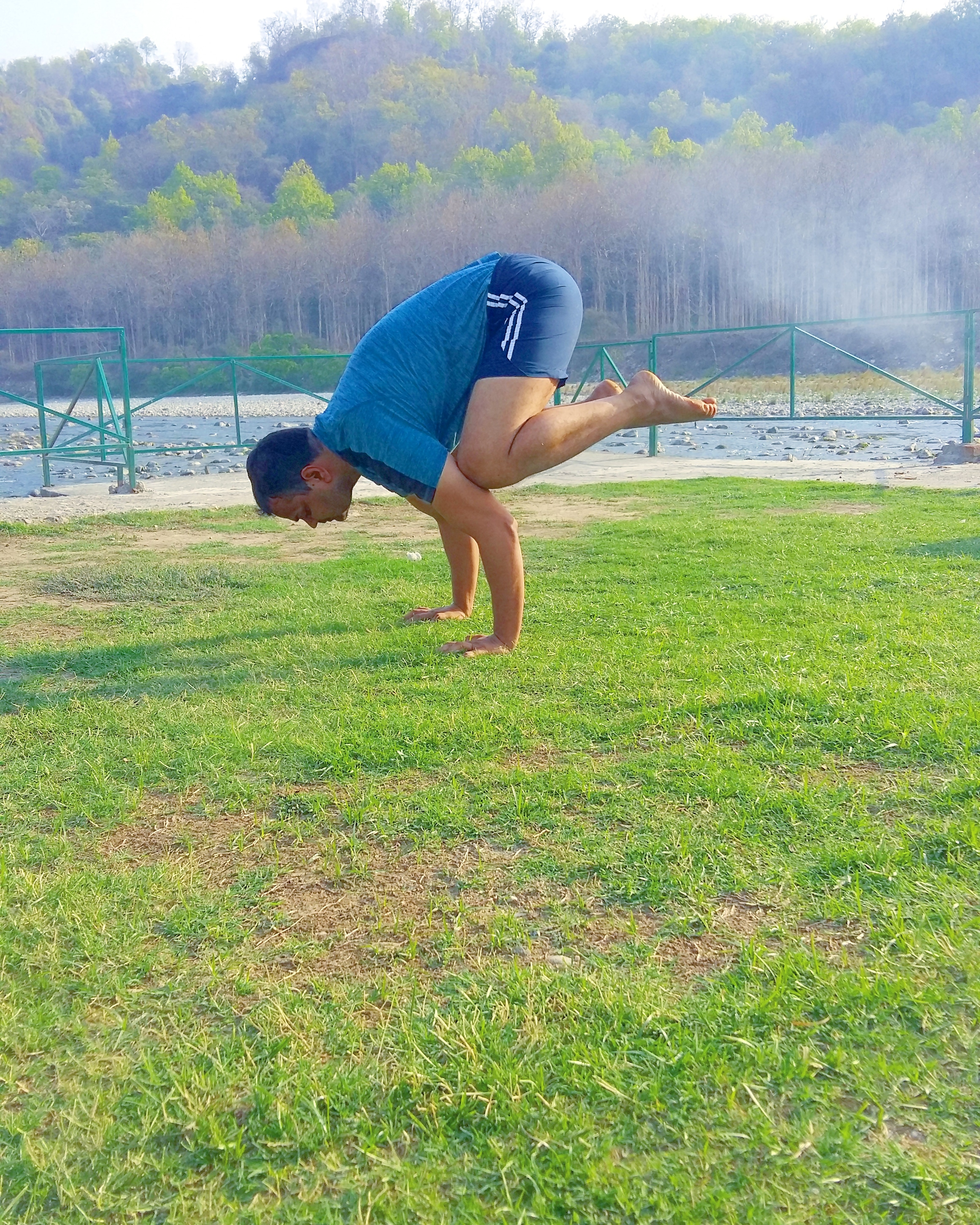 Crow Pose (kakasana), the bent arms distinguishing the pose from Crane Pose